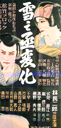 Movie poster for 1935 Japanese movie Yukinojō Henge (雪之丞変化 Yukinojō Henge).